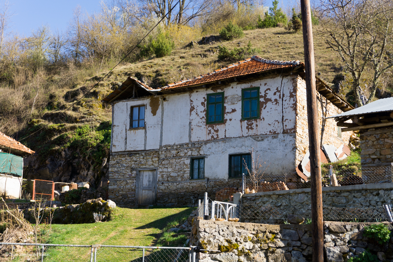 House in the village Prostranje, Macedonia